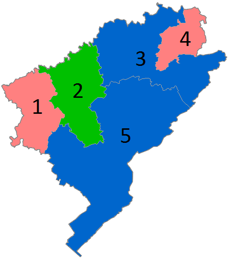 French legislative election in Doubs, 2012